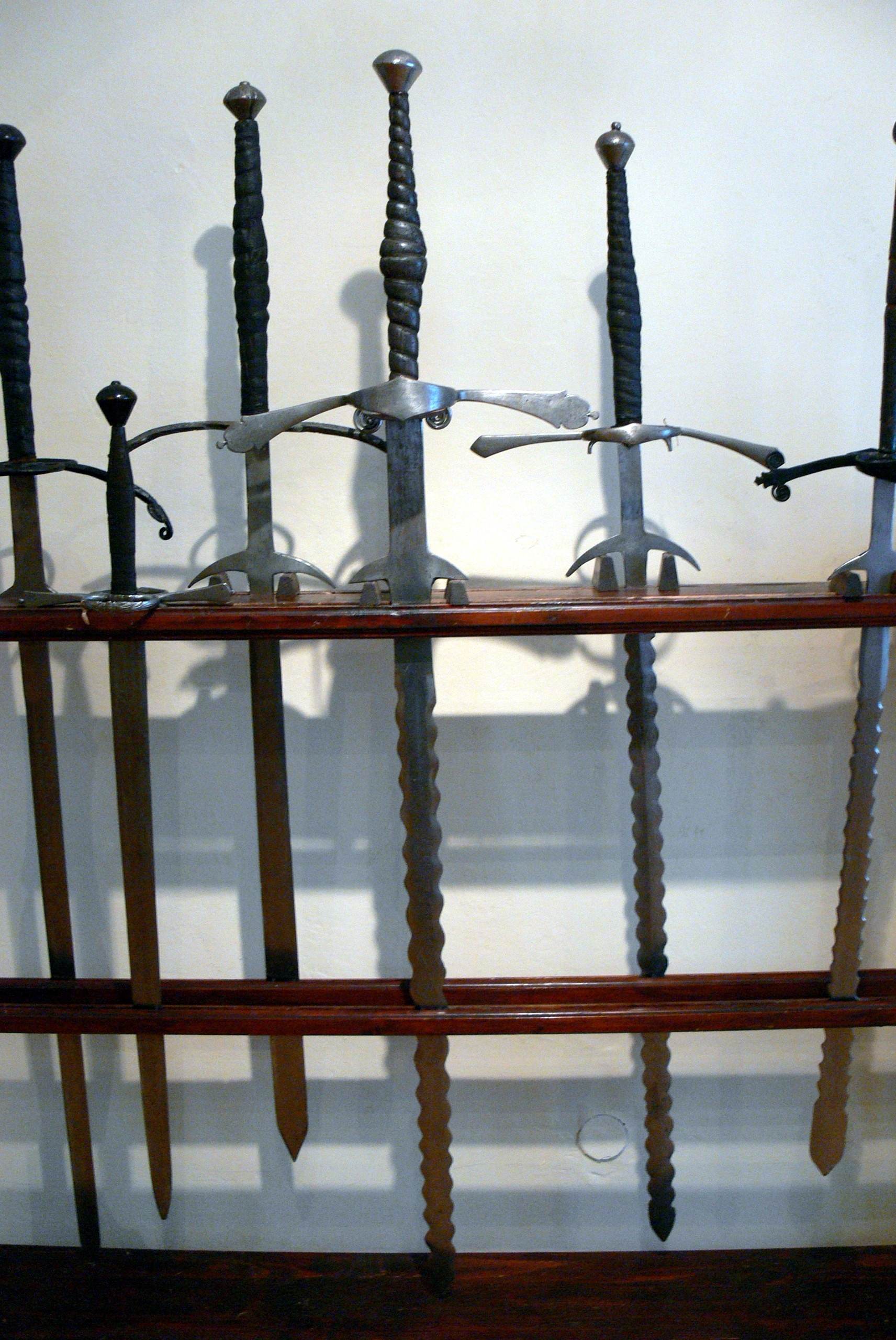 Enns ( Upper Austria ). Museum Lauriacum: Two handed swords ( 16th century ).